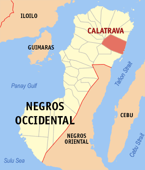 Map of Negros Occidental showing the location of Calatrava